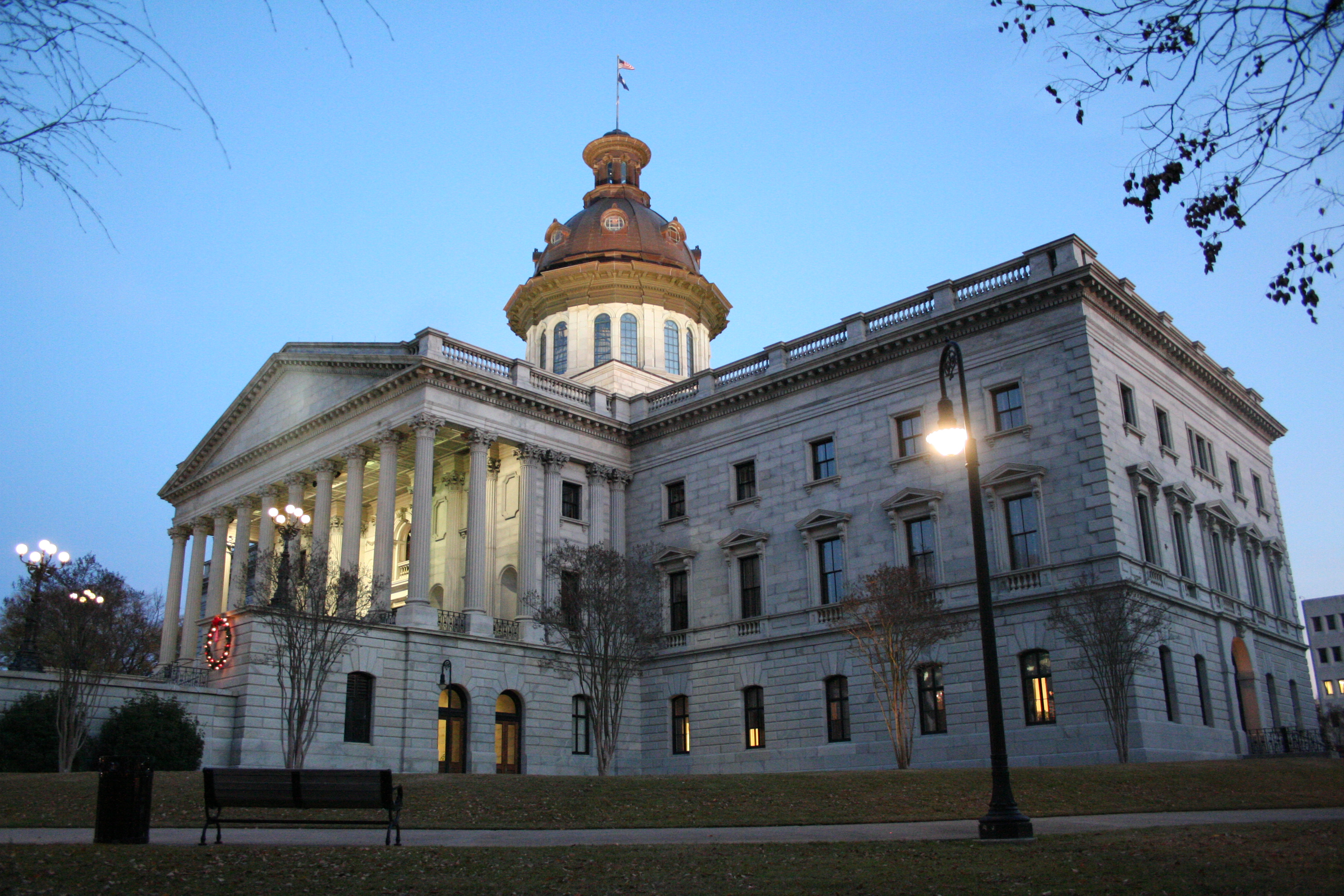 South Carolina State House, Christmas 2006, Brandon Davis